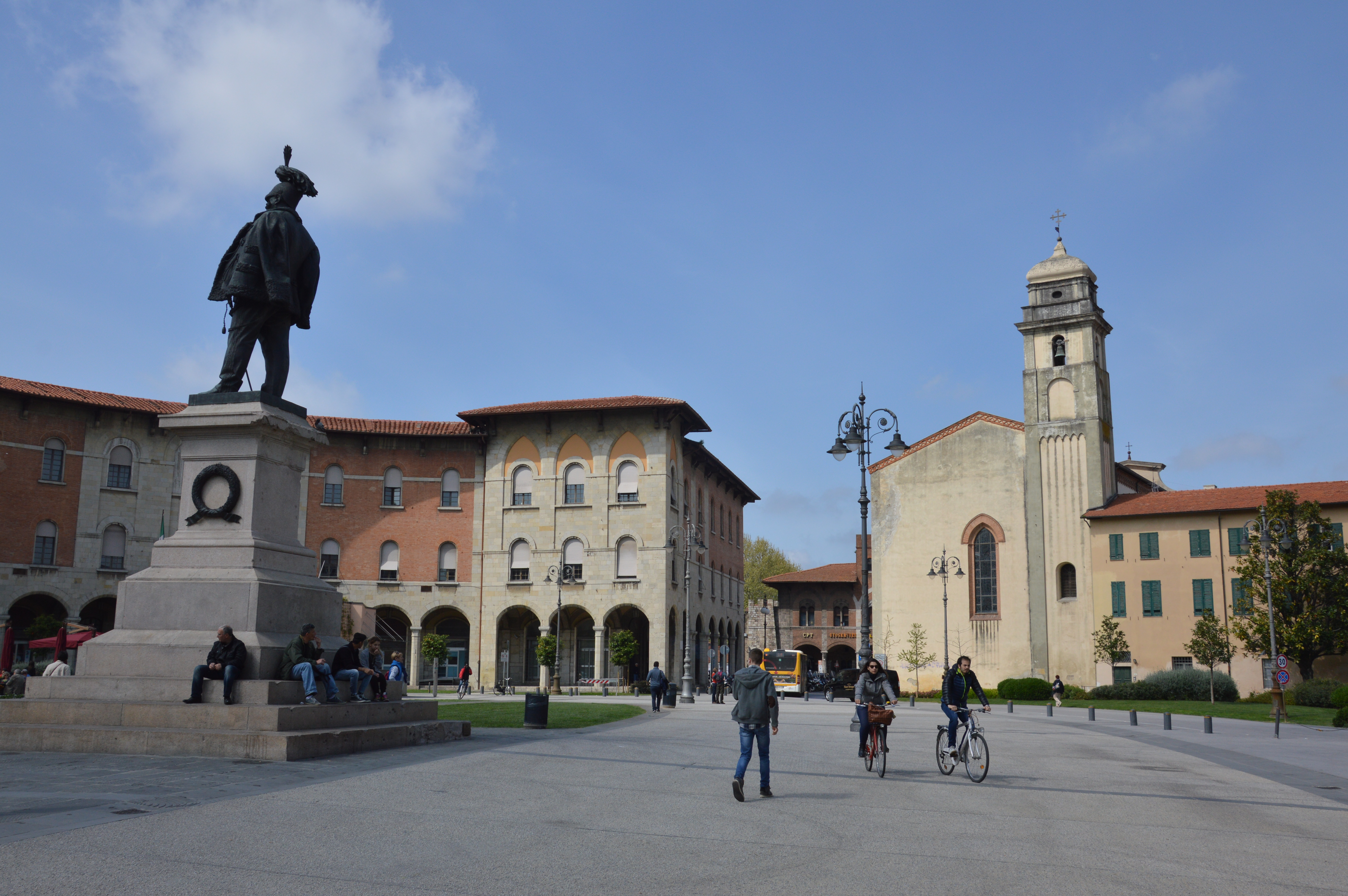 Piazza Vittorio Emanuele II in Pisa, Italy.